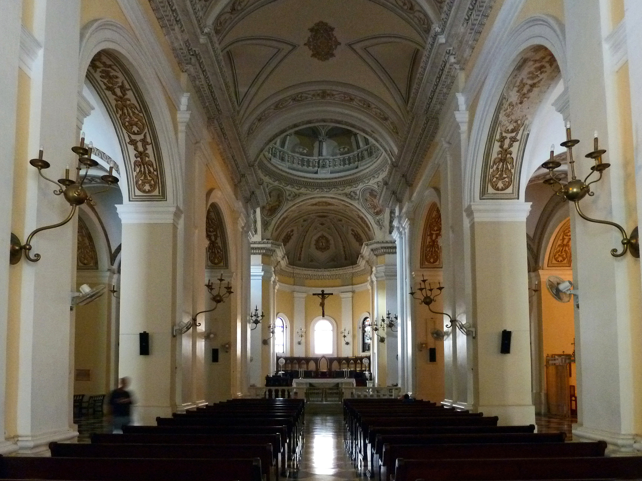 Inside the Cathedral